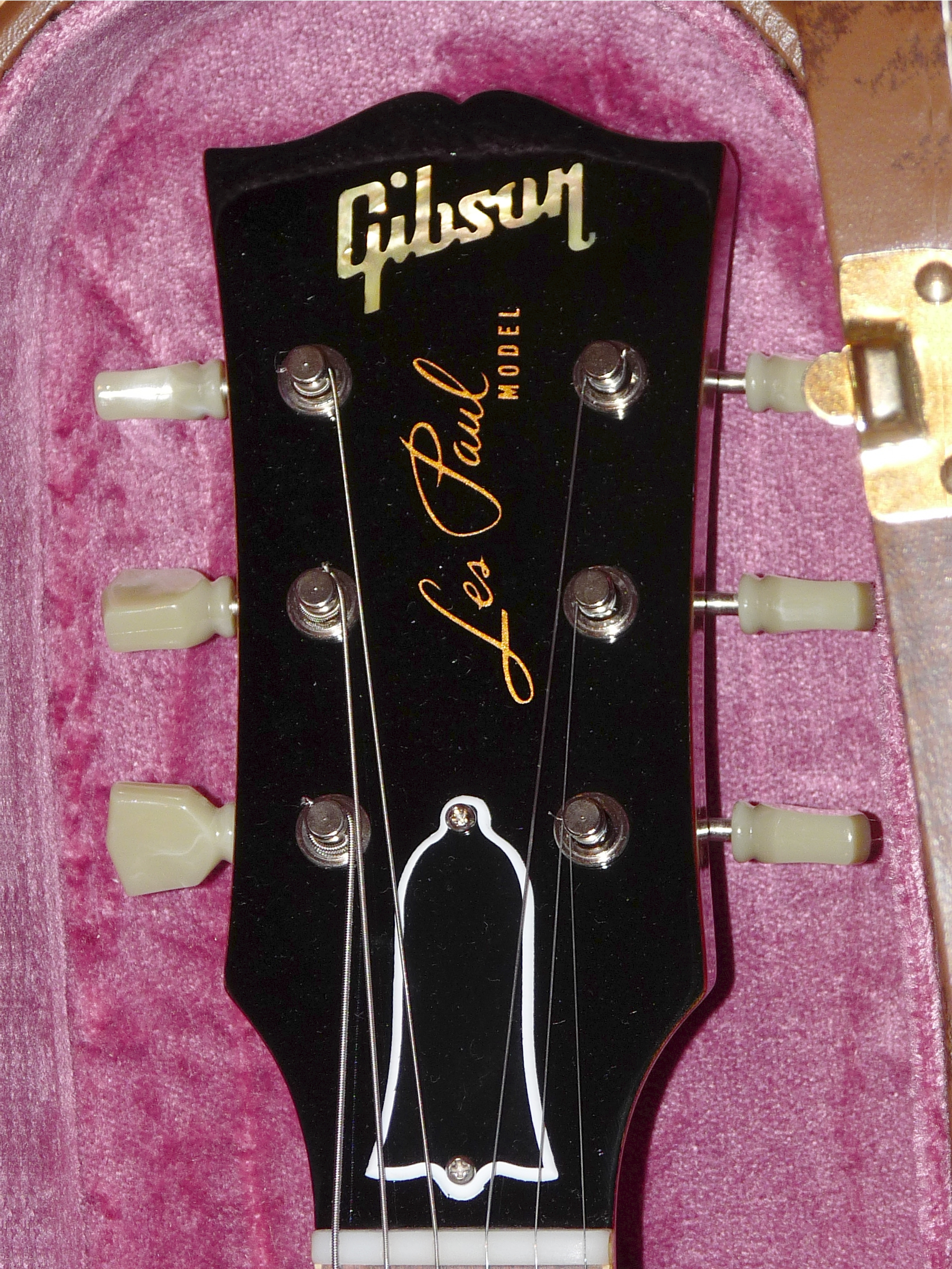 Gibson Custom 50th Anniversary 1959 Les Paul Standard (headstock)